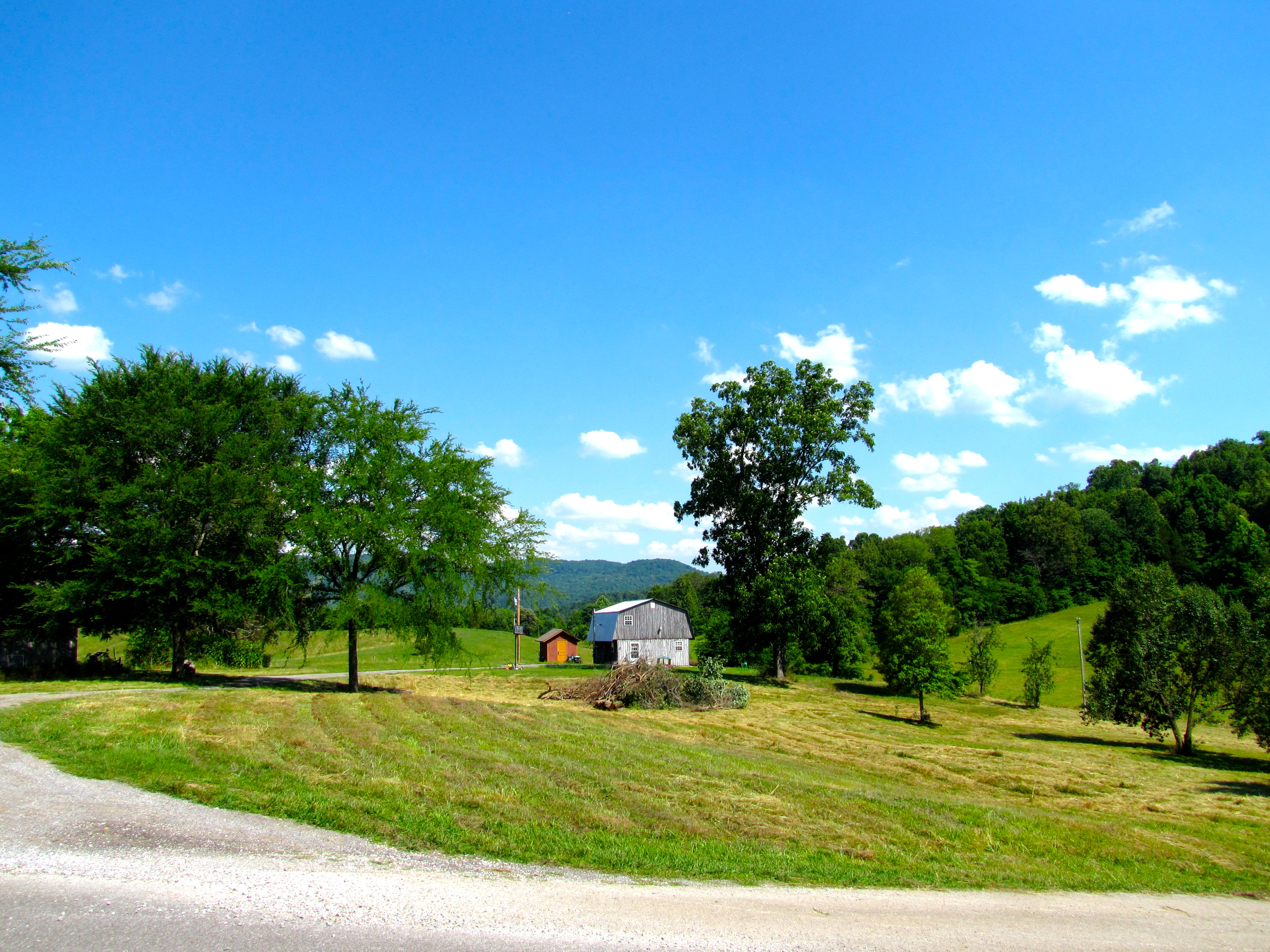 View east from Gravel Hill Cemetery in Van Buren County, Tennessee, United States.